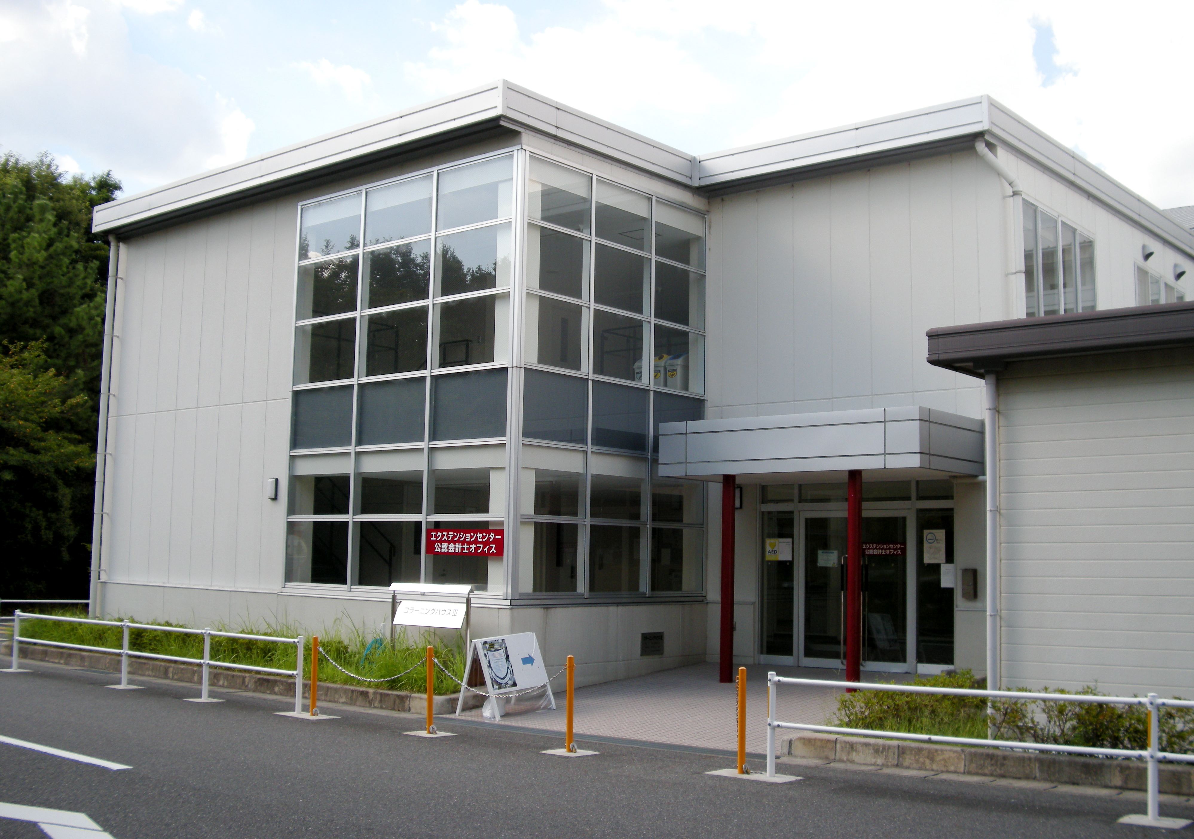 Co-Learning House III (Biwako Kusatsu Campus, Ritsumeikan University, Shiga, Japan)